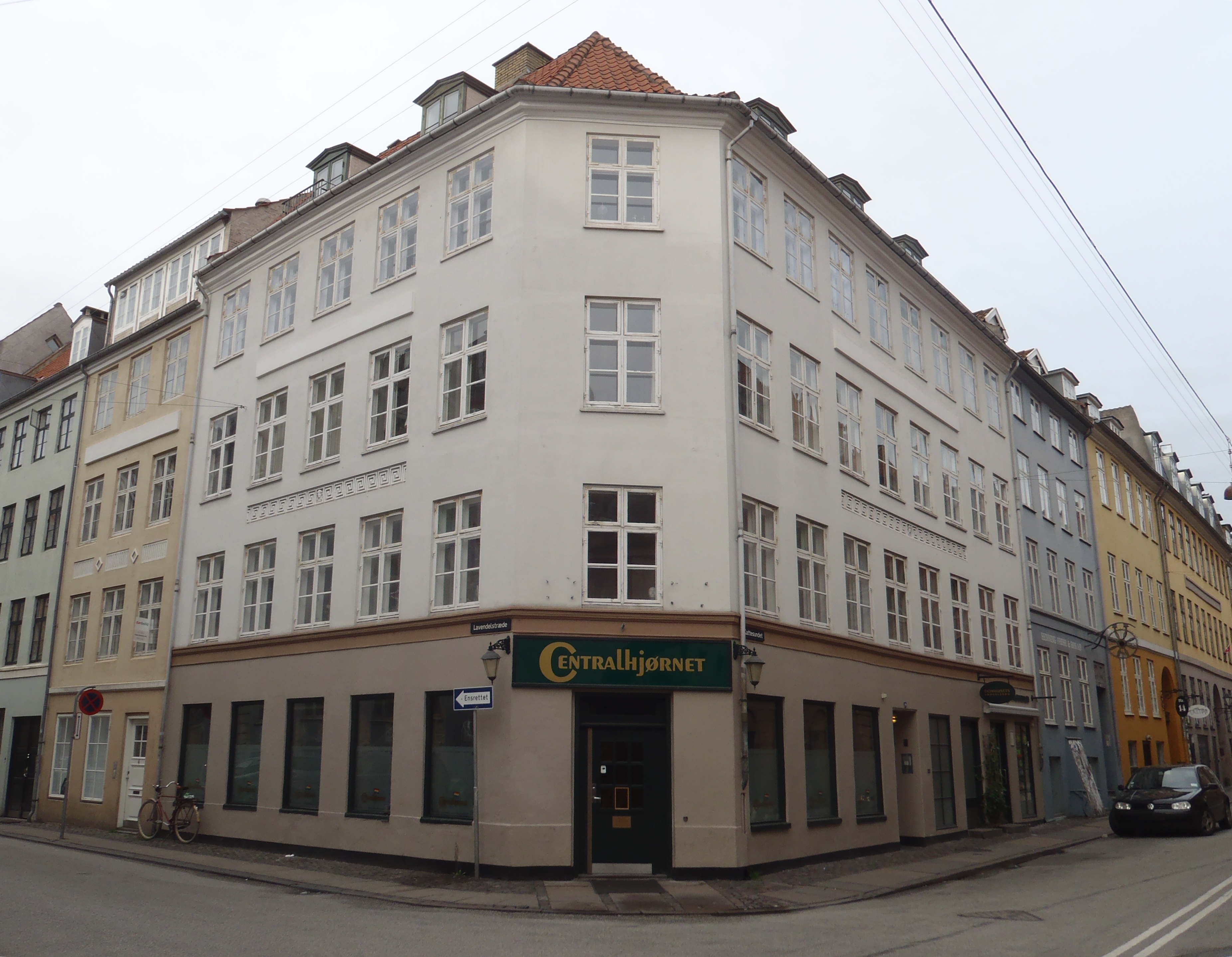 Centralhjørnet, bar in Copenhagen